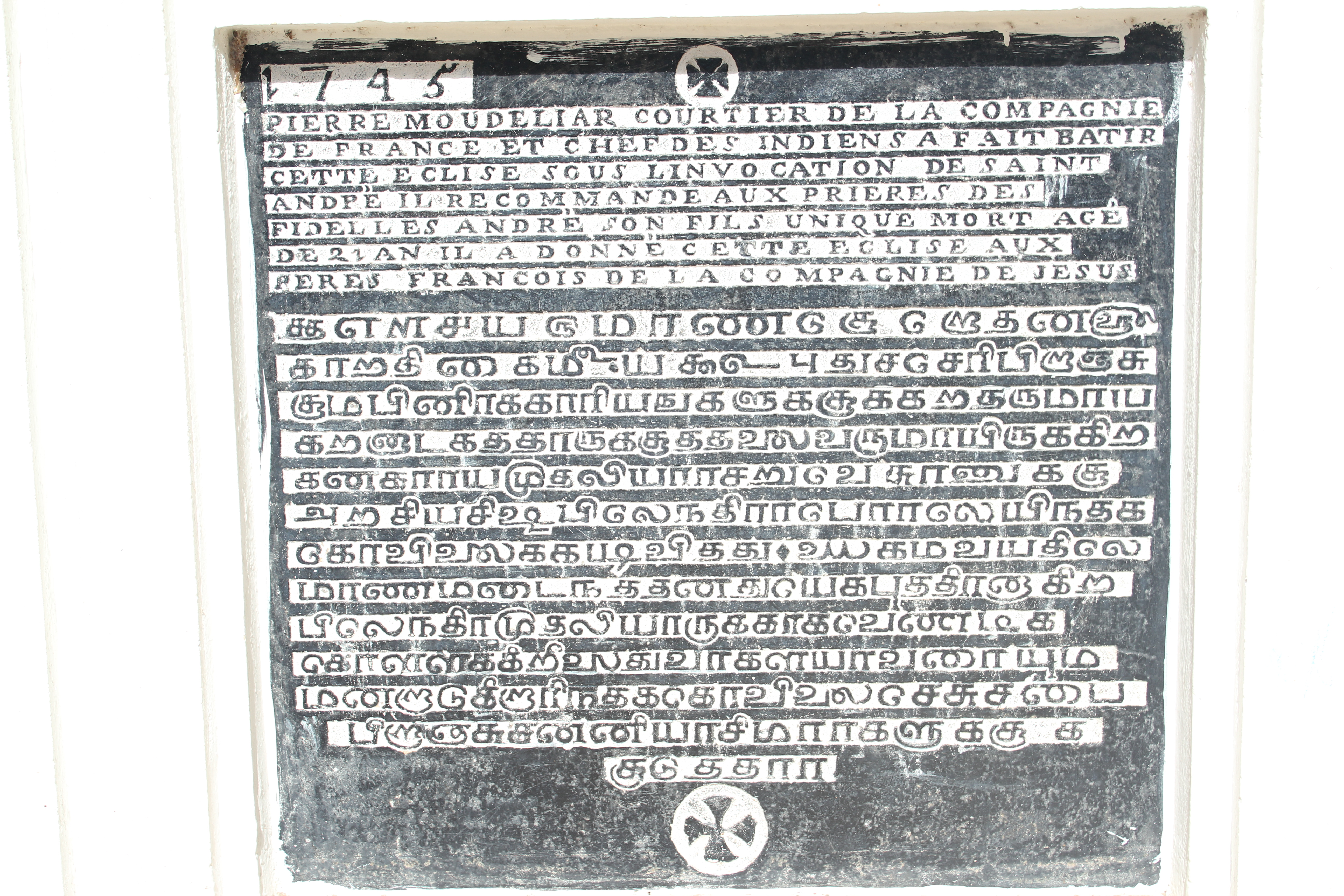 Tamil inscription at Andrews Church Reddiarpalayam Puducherry regarding the consecration of the church